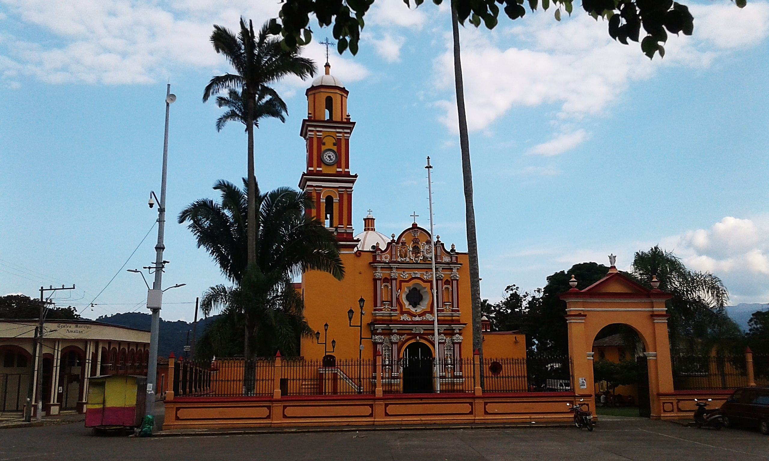 amatlán's parish